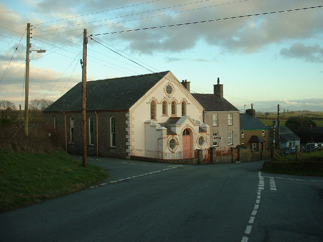 Pentreuchaf. The crossroads at the centre of the village.